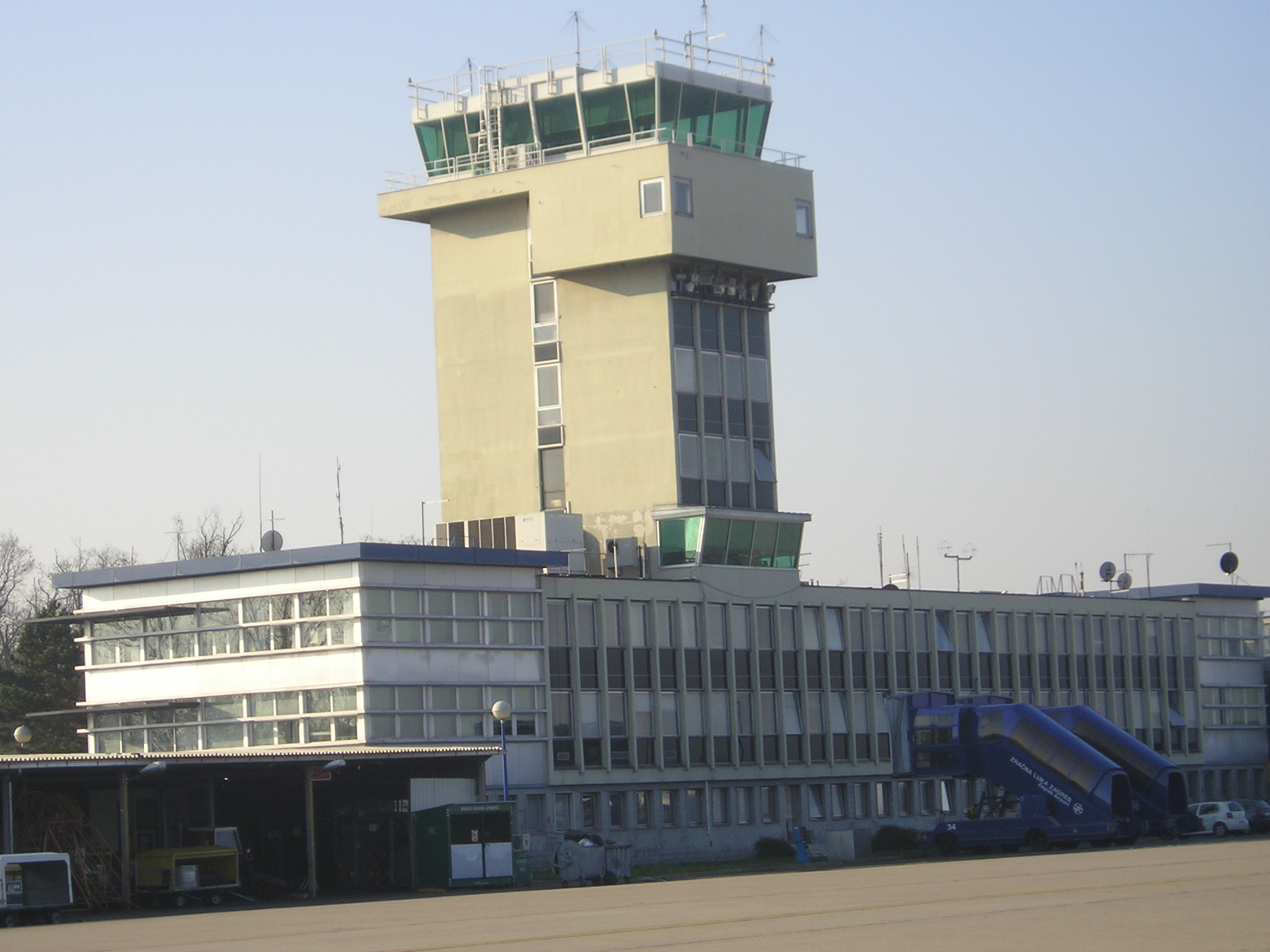 Airport Zagreb control tower